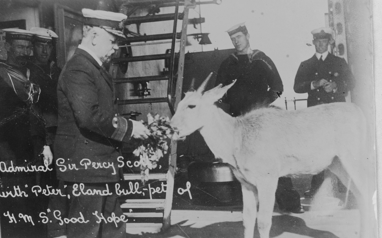 Admiral Sir Percy Scott with Peter, the Eland bull mascot of HMS 'Good Hope'. Crewmembers are in the background.